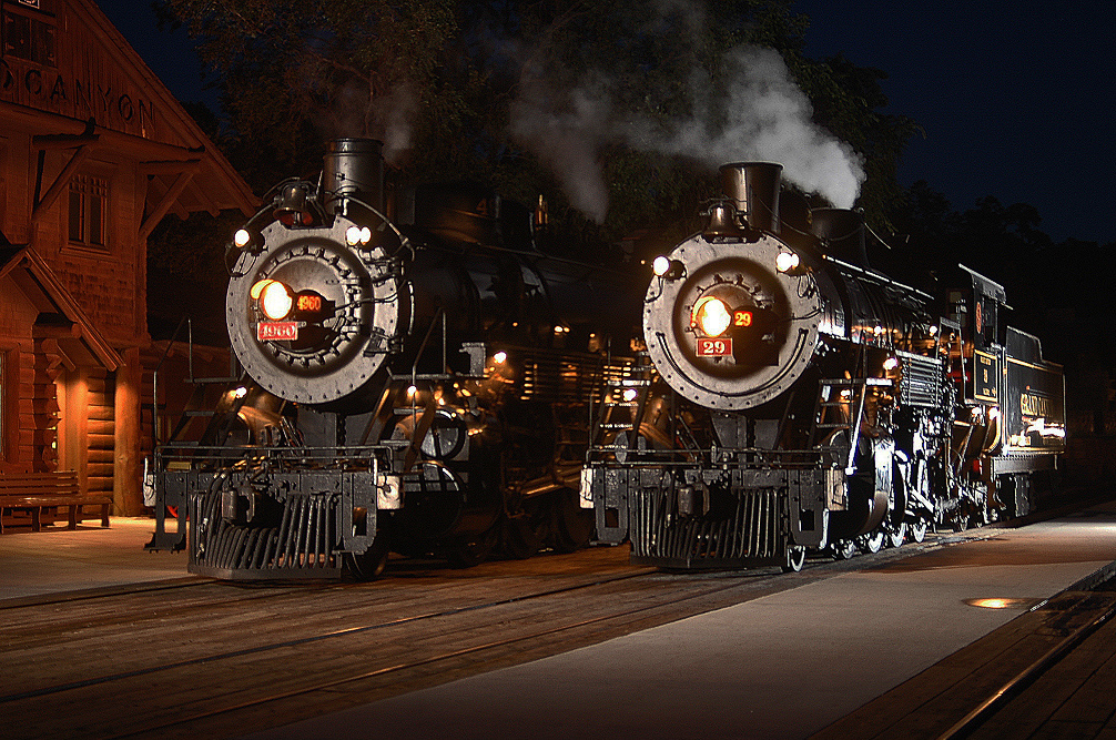 October 1st, 2005, 4960 and 29 had doulble headed on a photo excursion to the Grand Canyon. Posed at the GC depot prior to the night run back to Williams.